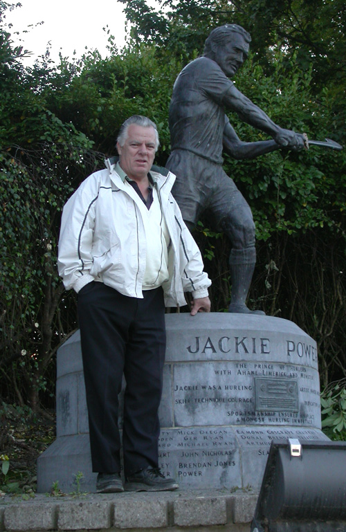 Leacht cuimhneachain Sean de Paor in Ath na Coite